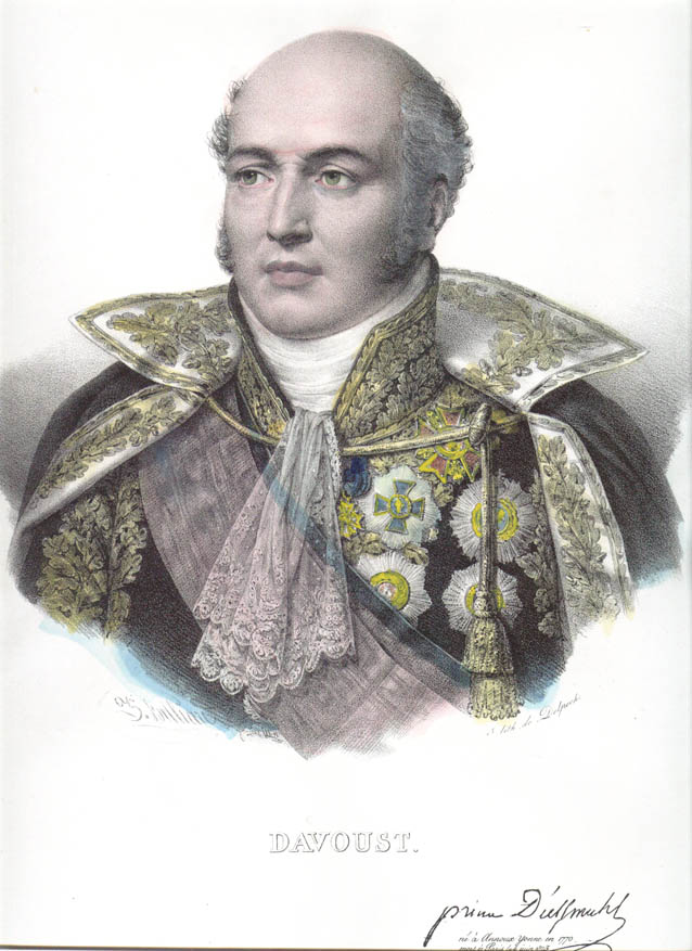 Lithograph published in Paris circa 1830, portraying Marshal Louis-Nicolas Davout, Prince d'Eckmuhl, Duc D'Auerstaedt.